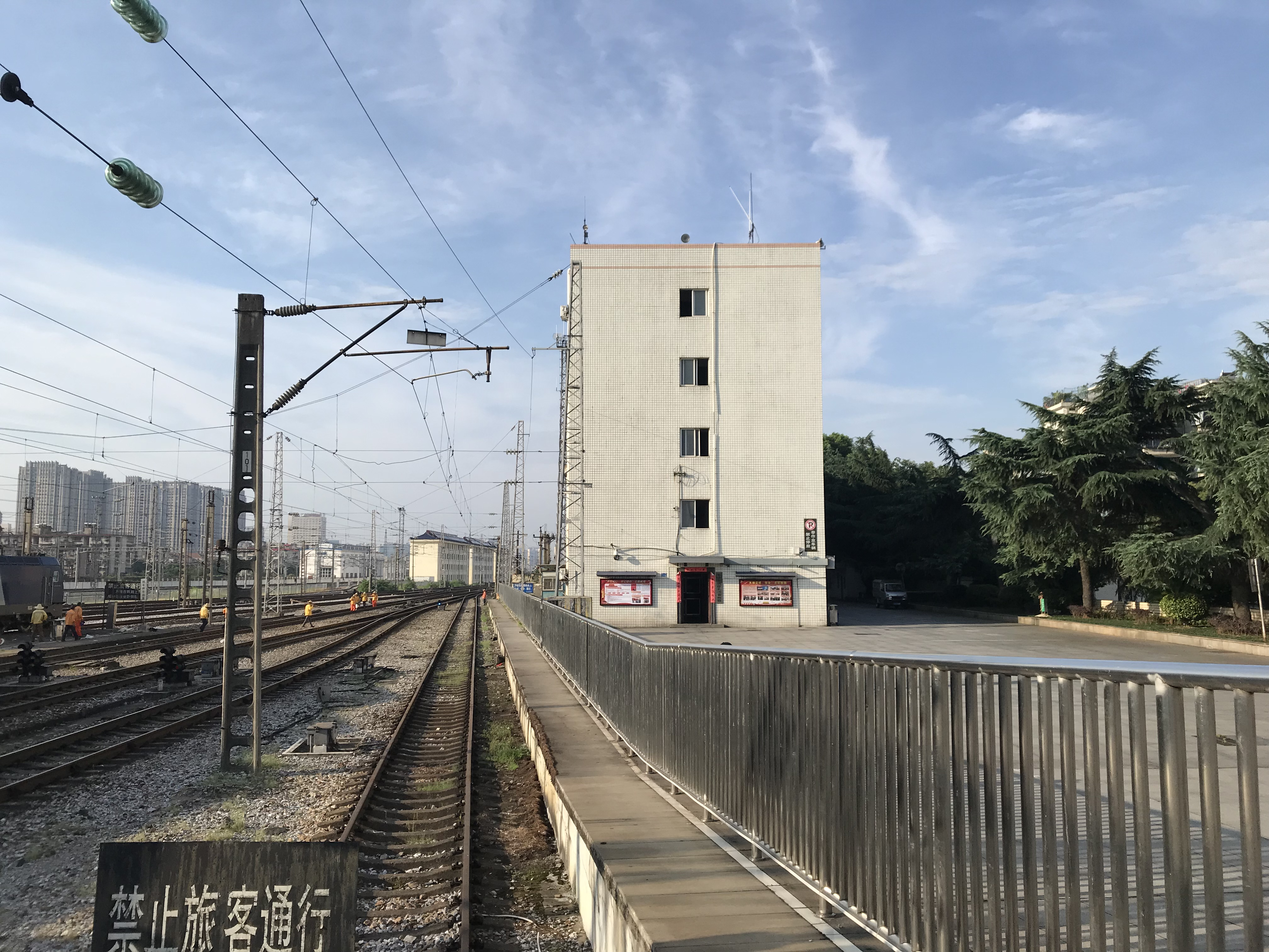 201906 Changsha Apartment near Changsha Station